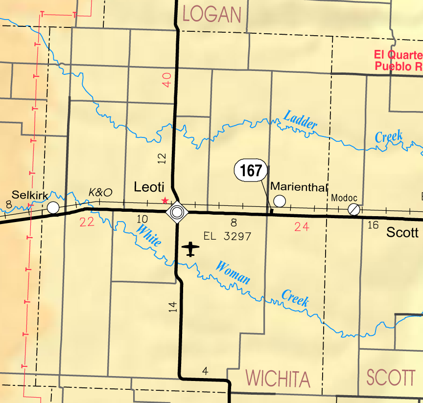 This map of Wichita County, Kansas, USA, is copied at a resolution of 300 pixels/inch from the original PDF file.